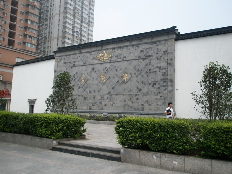 File name wrong, should be West wall of JingJue Mosque.In Zhongshan East Road see the westwall of JingJue Mosque.